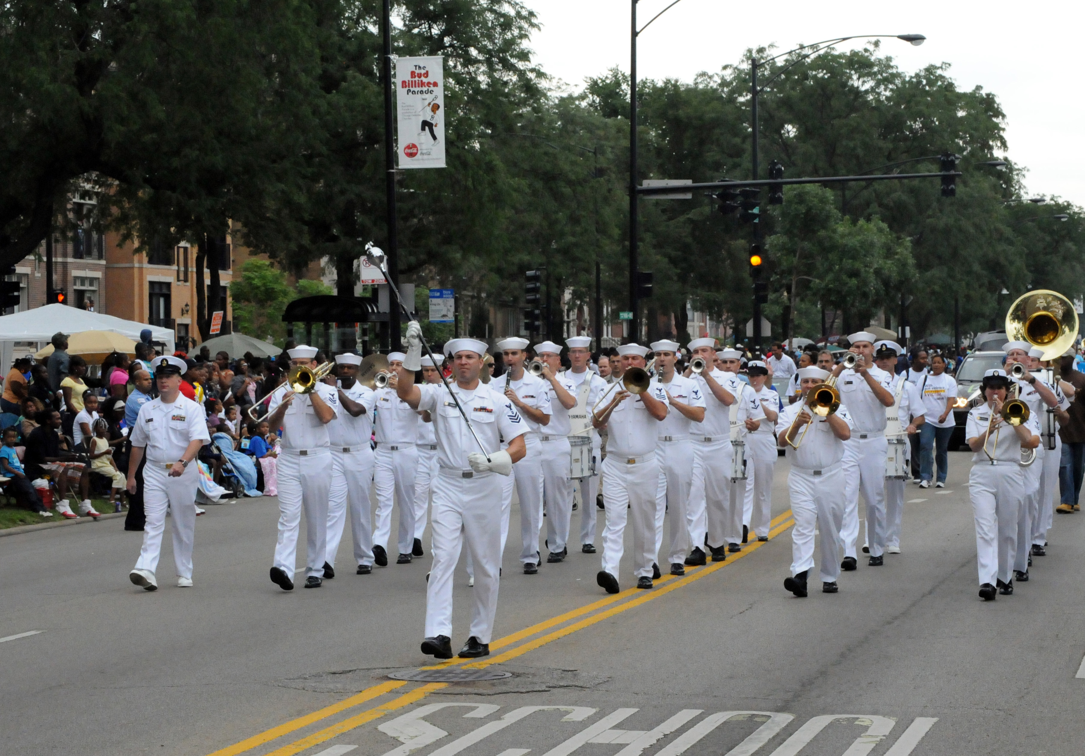 CHICAGO (Aug. 9, 2008) Sailors from Navy Band Great Lakes march in the 79th annual Bud Billiken parade, kicking off the 2008 Chicago Navy Week events. Navy Weeks are designed to raise awareness in metropolitan areas that do not have a significant Navy presence. (U.S. Navy photo by Mass Communication Specialist First Class Sean Linvill/Released)